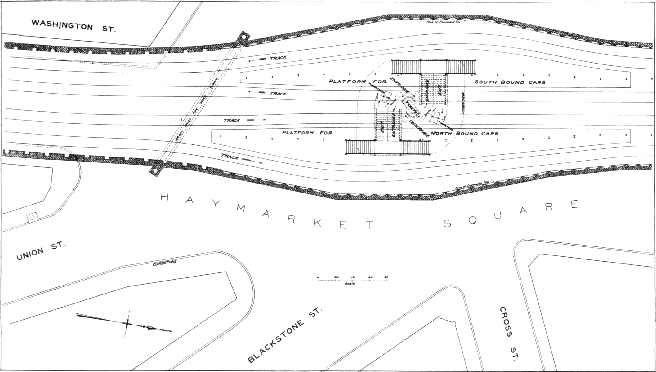 Schematic plan for the Tremont Street Subway (now Green Line) station at Haymarket. This station, with four tracks and two island platforms, was in service until 1971.